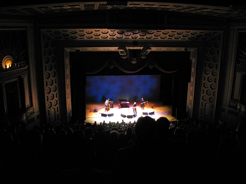 Inside of Taft Theatre during a show by John Prine.